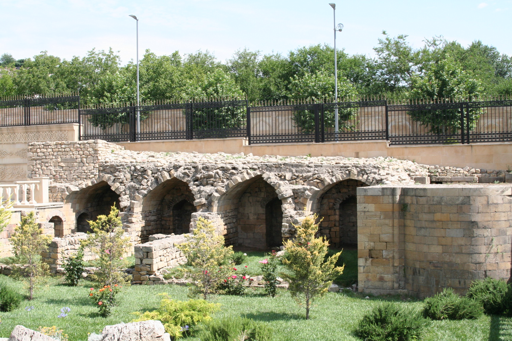 Architectural site near Friday Mosque of Shamakhi. Originally was built in 743. Destroyed during earthquake in 1902. Rebuilt in 1910 by Józef Plośko (1867—1931).